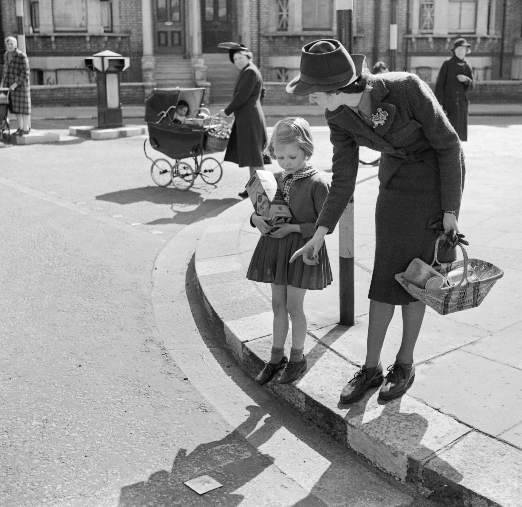 A mother teaches her daughter to cross the road in safety during 1942. A mother helps her daughter cross the road, by explaining that the safest way to cross is via the pedestrian crossing. They are obviously on their way back from shopping, as the mother is carrying a shopping basket full of goods and the child is carrying a large box of cereal. Behind them, another mother pushes a pram across another pedestrian crossing. Note also that the tape on the windows of the houses in the background to prevent blast damage has been applied in a 'spider web' pattern.